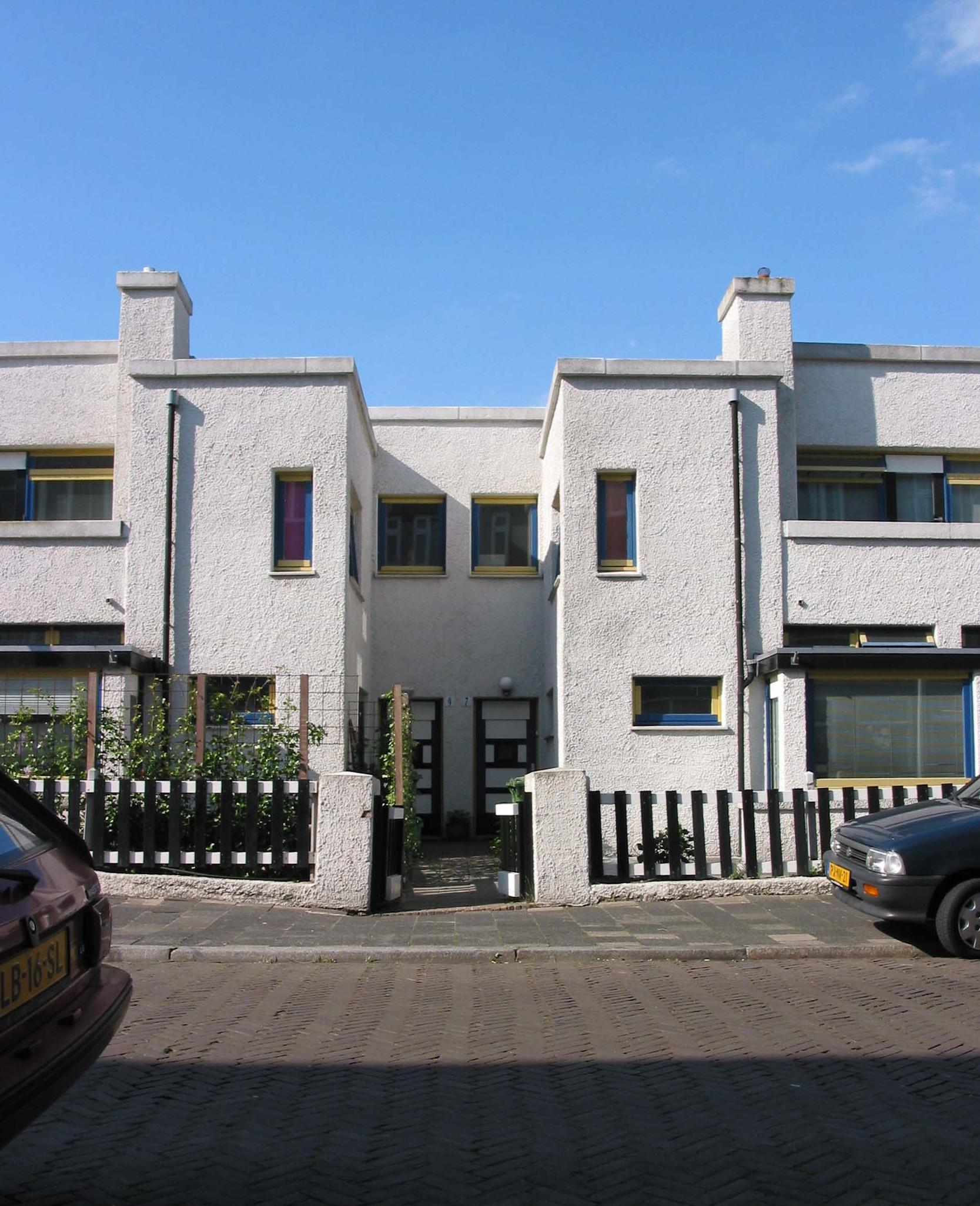 Jan Wils (architect). Houses, Magnoliastraat 7-9, The Hague, entrances. 1921.